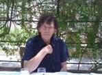 Luc Reychler